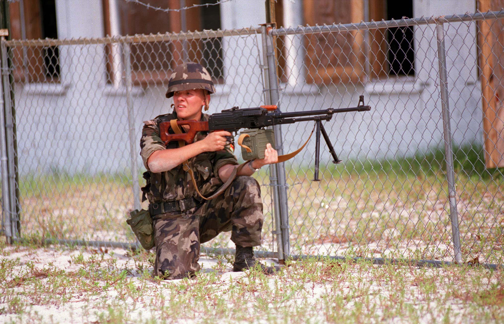 A Hungarian soldier patrols the fence line, armed with a 7.62 mm PK Kalashnikov machine gun, during Final Training Exercise-2 (FTX-2), a part of Cooperative Osprey '96.